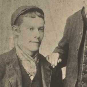 Robert Andrew Scott Macfie (1868-1935) (left) is pictured alongside a fellow employee from Messrs Macfie & Sons, the sugar refinery business in 1899 the business was founded 1838. He was Gypsy Lore Society secretary in 1907